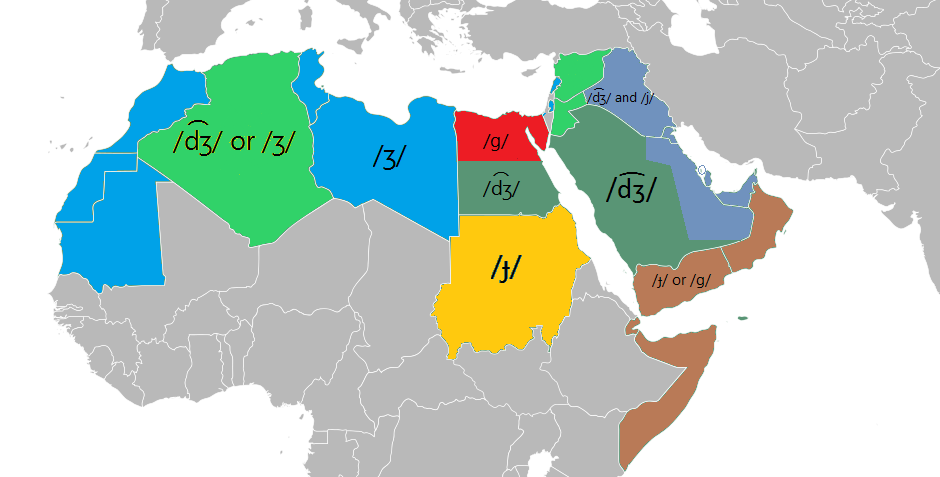 The realisation of the letter jīm as a phoneme through the Arabic Speaking Countries